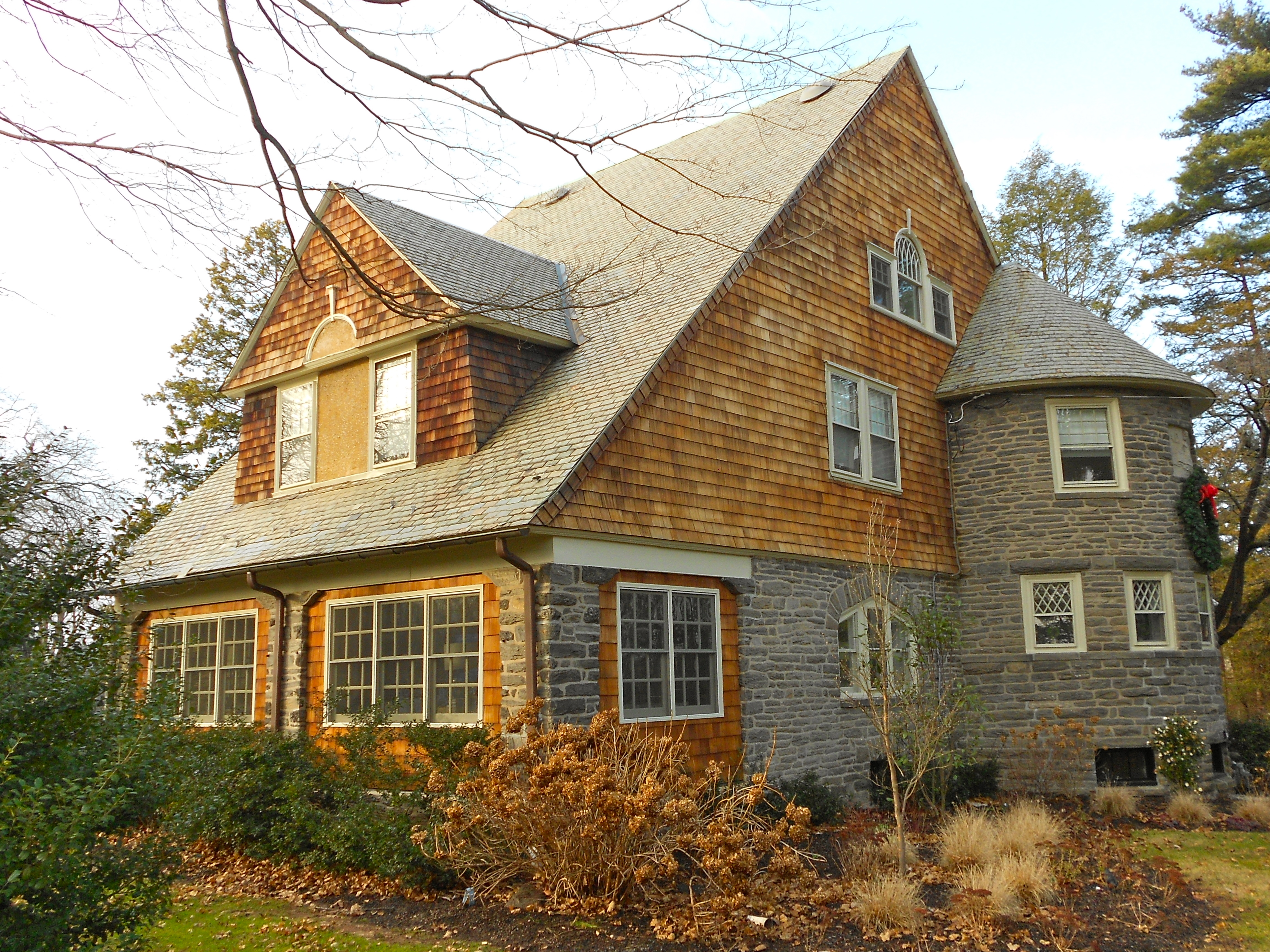 House at 314 Louella, Wayne, Pennsylvania in the South Wayne Historic District on the NRHP. House built 1892 and designed by Horace Trumbauer (according to the NRHP nomination)